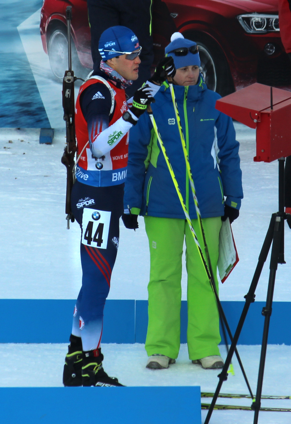 Leif Nordgren at Biathlon World Cup 2015 in Nové Město, Czech Republic – sprint men